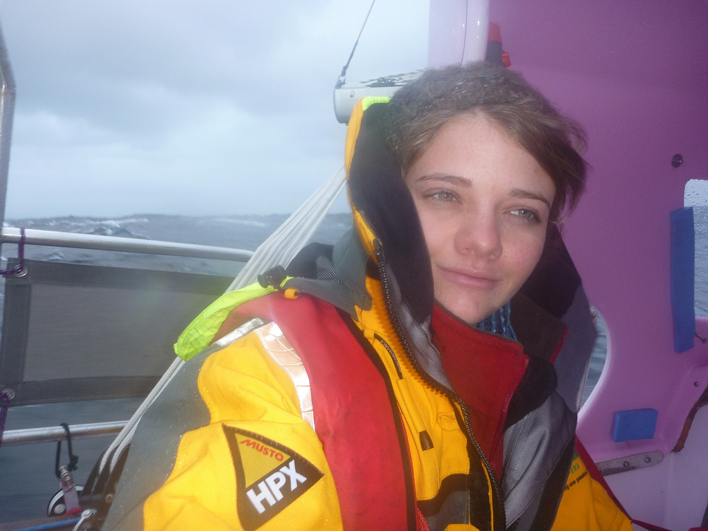 Jessica Watson rounding Cape Horn on January 13, 2010.